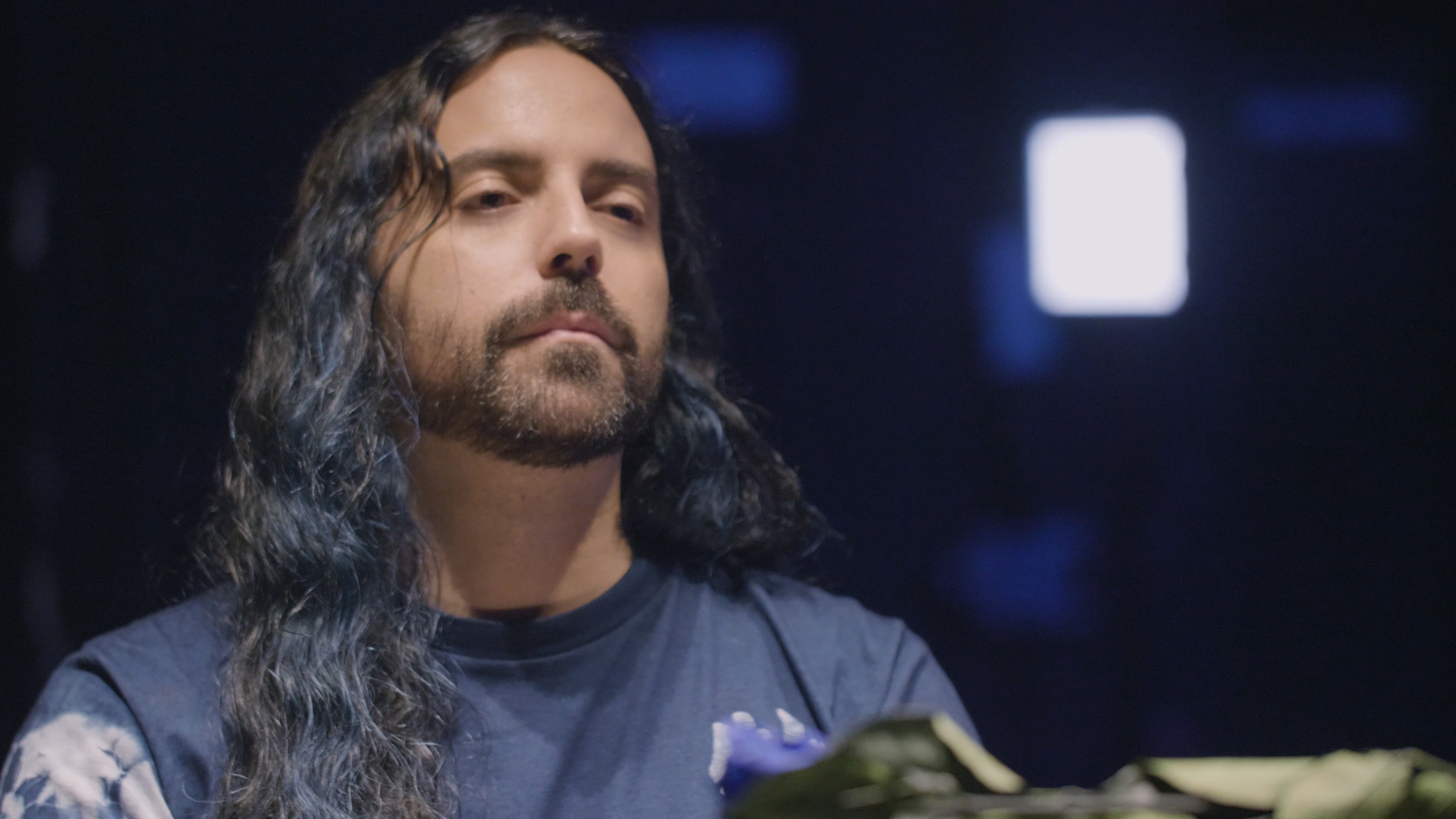 Jesús Díez recording the music video of the song Mono no Aware in Albacete's Teatro Circo in 2019.